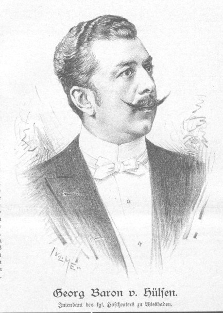 Portrait of Georg von Hülsen-Haeseler (1858-1922), Preussian official, director (Intendant) of a theater in Wiesbaden.